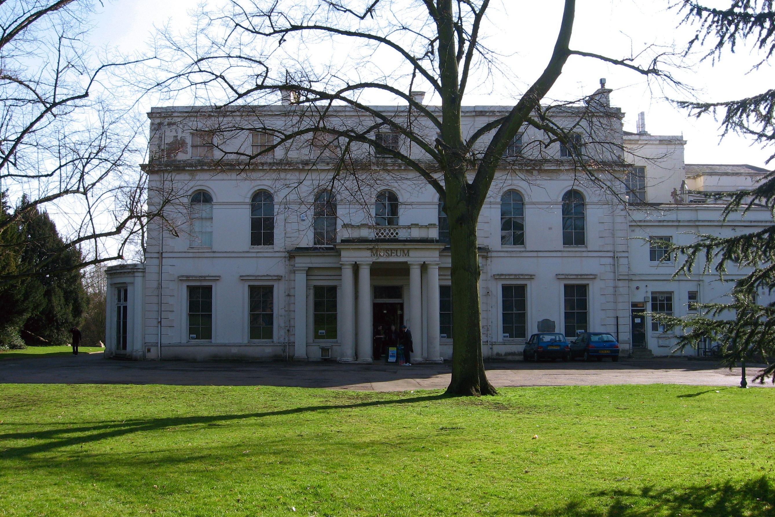 Gunnersbury Park Museum, Brentford, Hounslow, London, England.